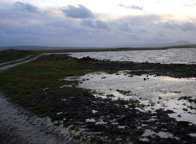 Loch of Harray Looking southwards along the shoreline. Taken about 1.30 in the afternoon. Mind you, in June I could take the same photo at 1.30 in the morning... it might be a bit lighter then.